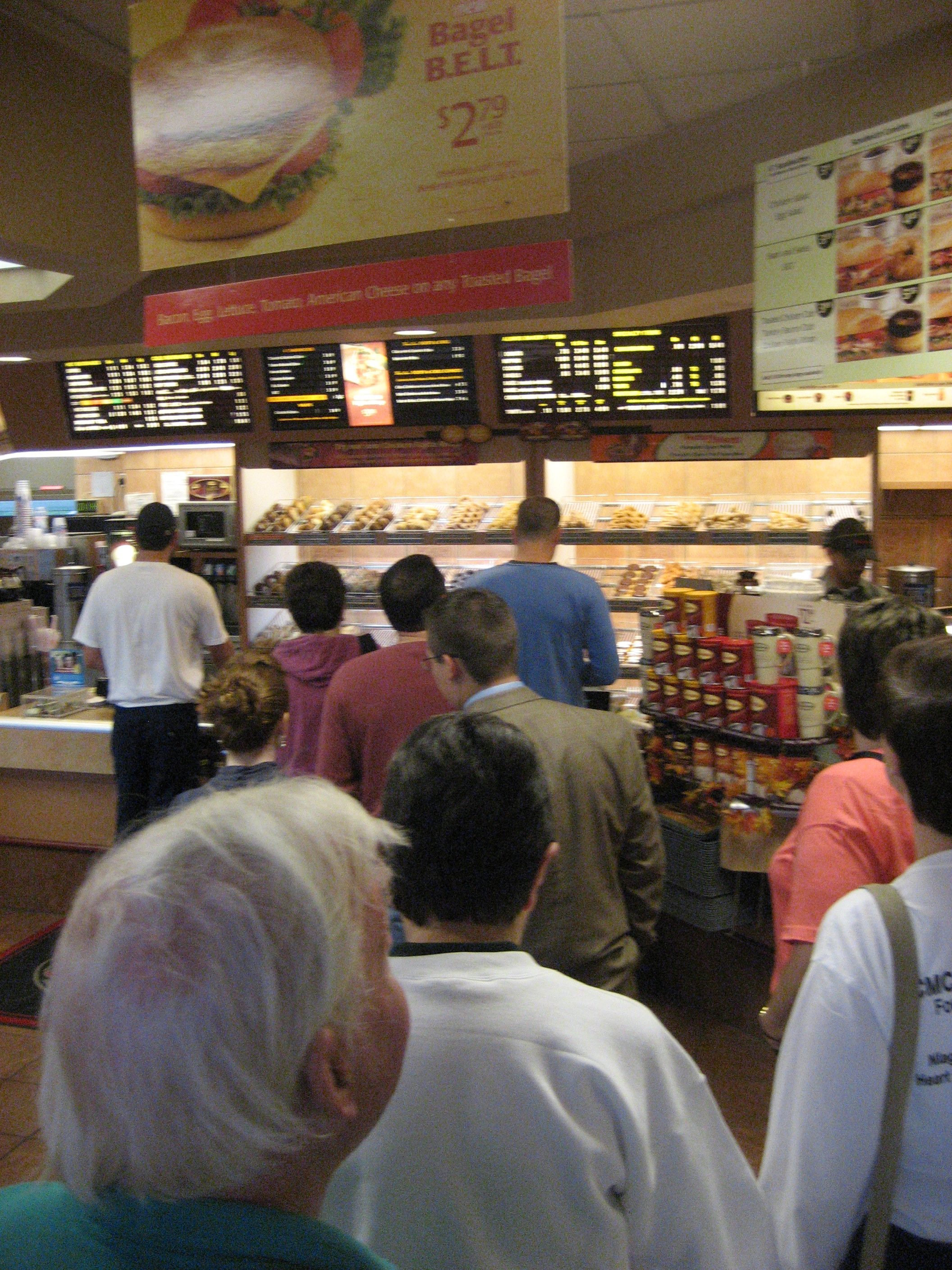 A typical queue at Tim Hortons